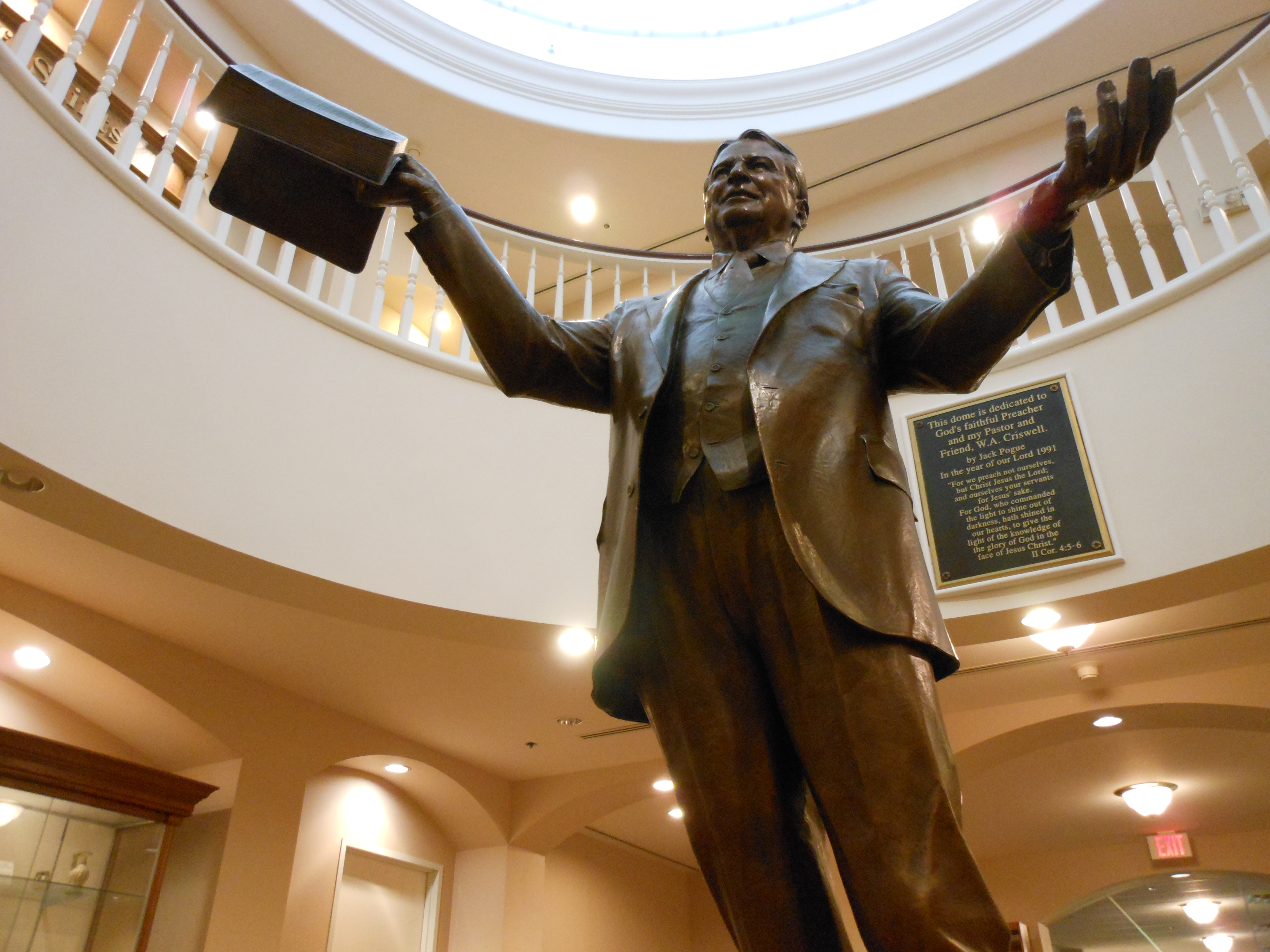 Buswell's W. A. Criswell